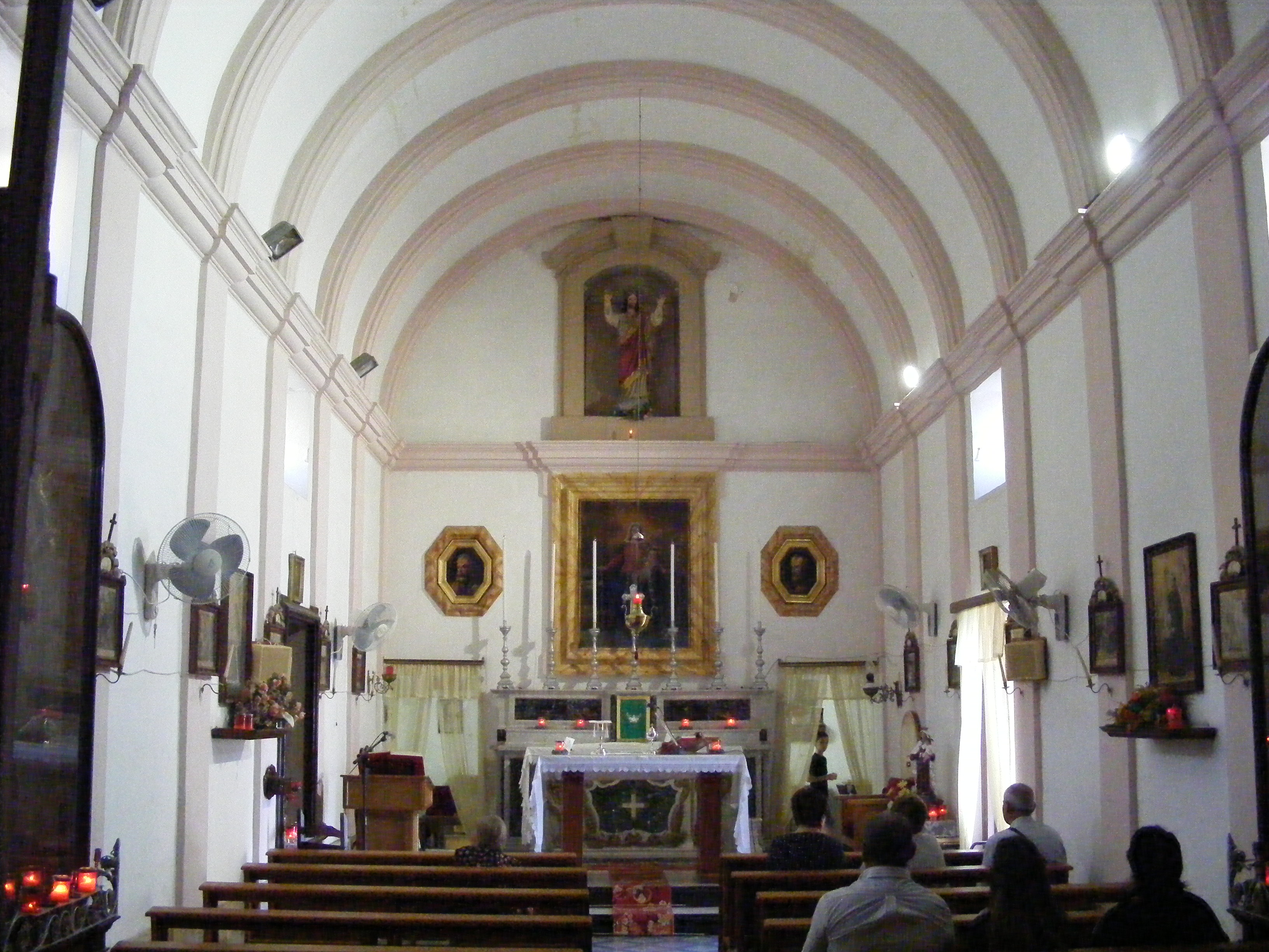 Interior of Our Lady of Carmel Church, Triq San Pawl, San Pawl il-Bahar (St. Paul's Bay), Malta